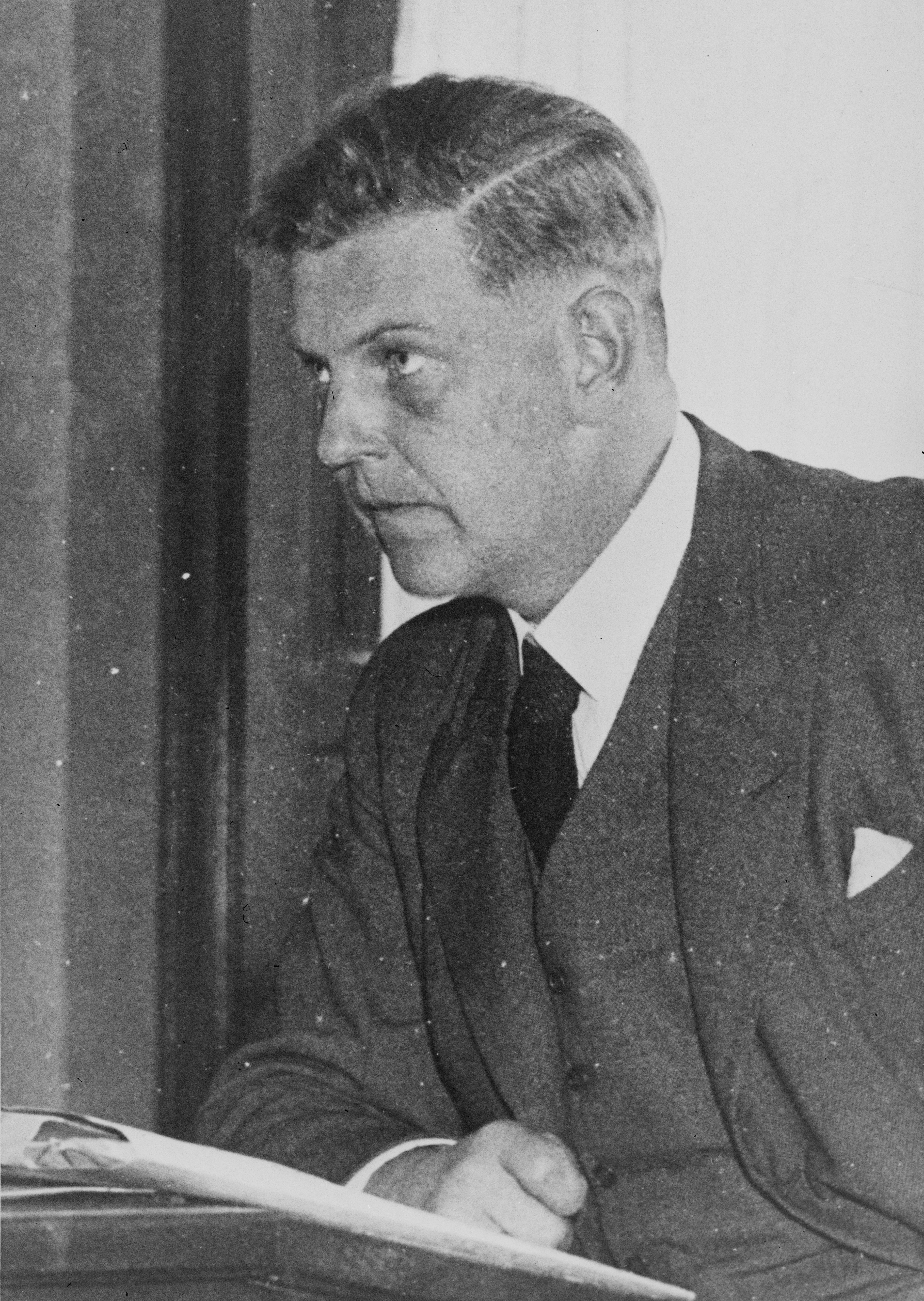 Høyesterettsdommer Thomas Bonnevie, en gang under andre verdenskrig.